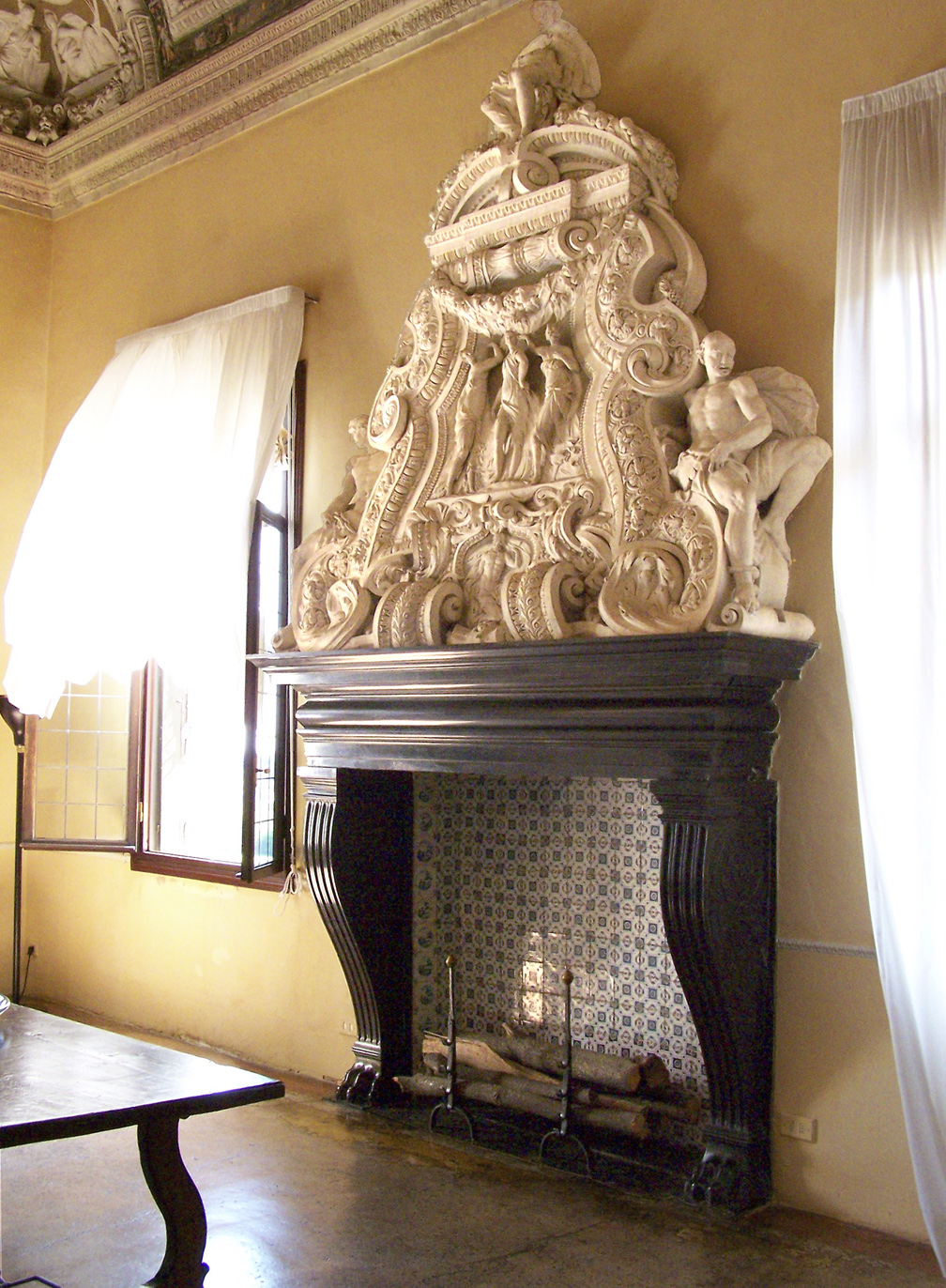 Marble relief sculpture over wood mantlepiece in Villa Capra "La Rotonda" in Vicenza, Italy